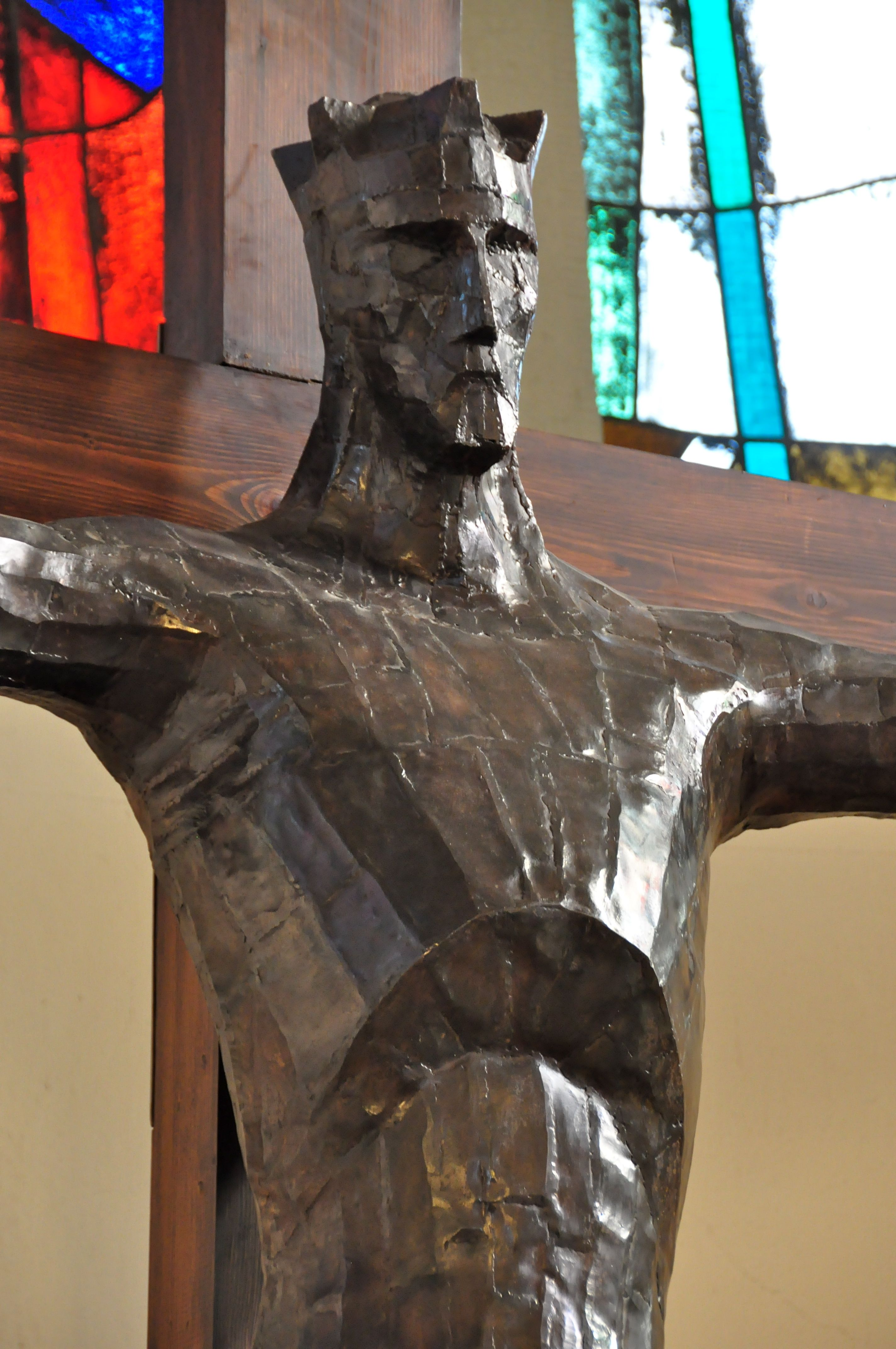 “The Crucified Christ”, steel sculpture, created in the year 1971 by the sculptor Jan Milan Krkoška for the parish church Saint Ruprecht in the capital Klagenfurt, municipality Klagenfurt am Wörthersee, Carinthia, Austria